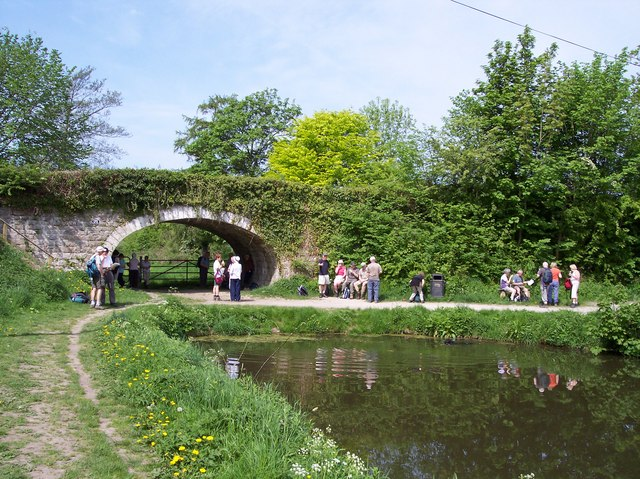 Northern end of Lancaster Canal still in water From this point onward to Kendal this canal is dry.